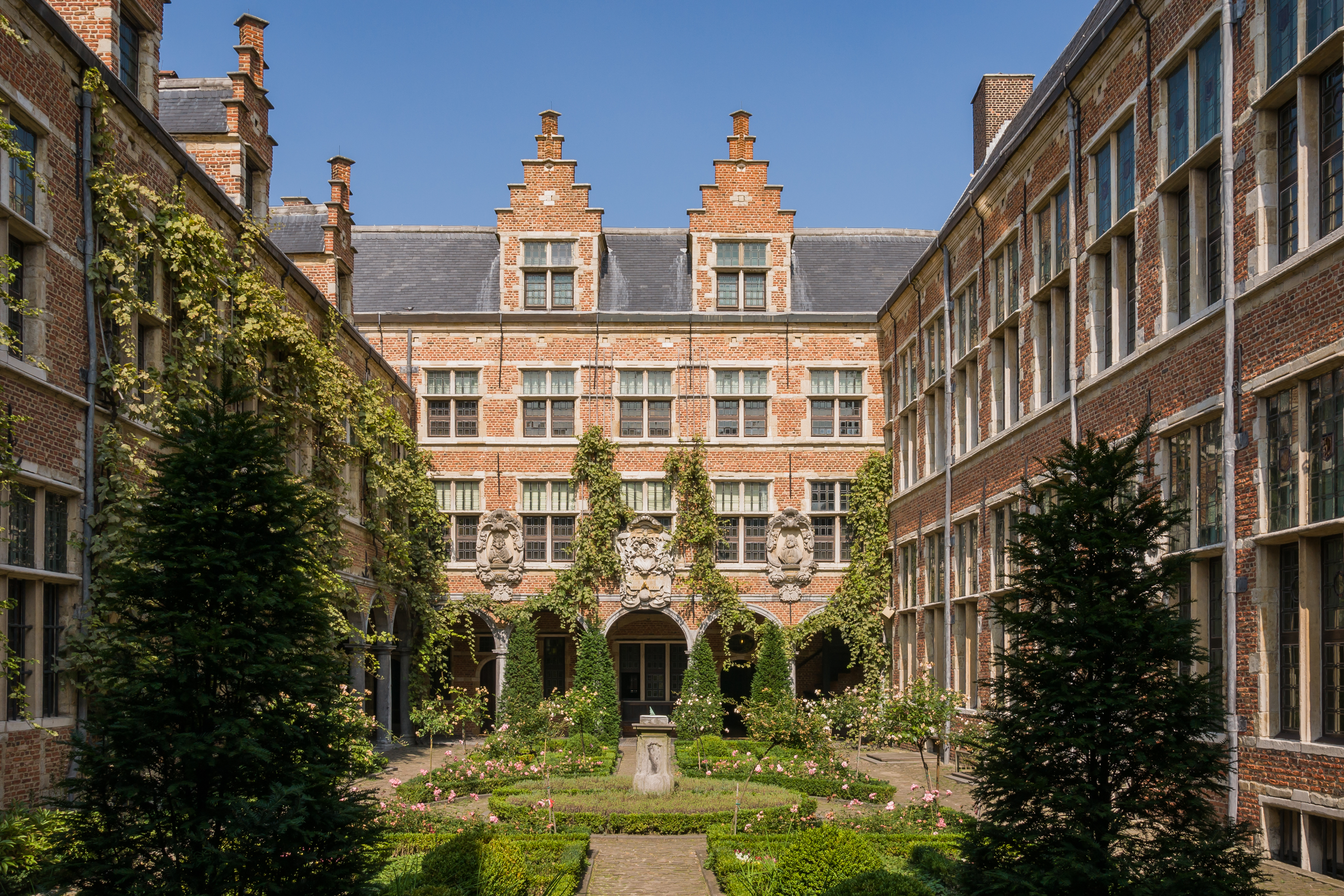 Antwerp, Belgium: Inner yard of Museum Plantin-Moretus